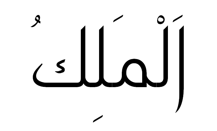 4 Name of Allah